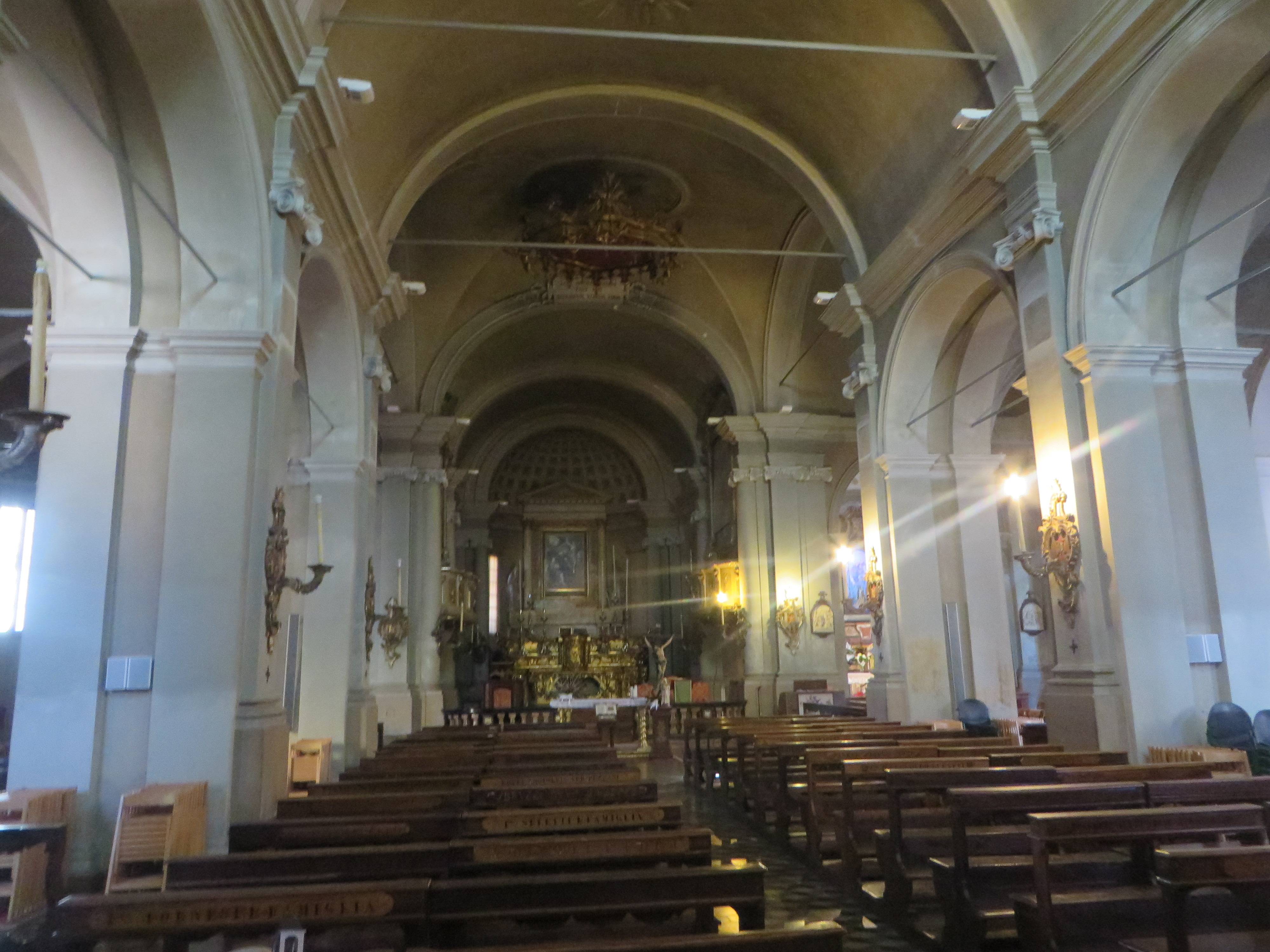 San Secondo Curch